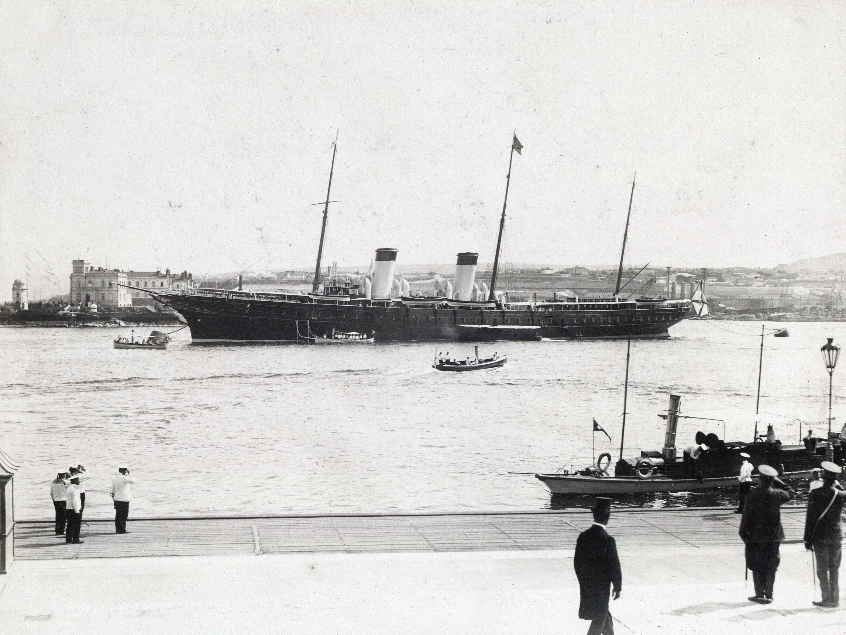 Russian Imperial yacht Shtandart in Sevastopol, 1909.